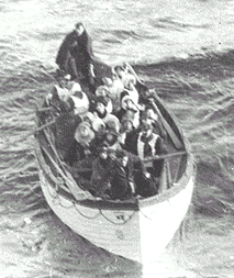 Boat number 6 of Titanic, in morning of the 15 april 1912